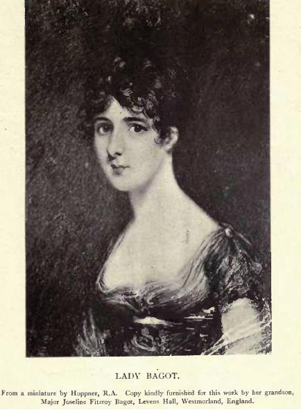 Lady Mary Charlotte Ann Bagot wife of Right Hon. Sir Charles Bagot, Bart., G.C.B.